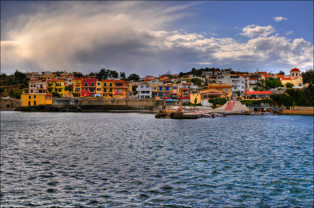 During our fall holydays on the greek island crete, we visited the small village Panormo.